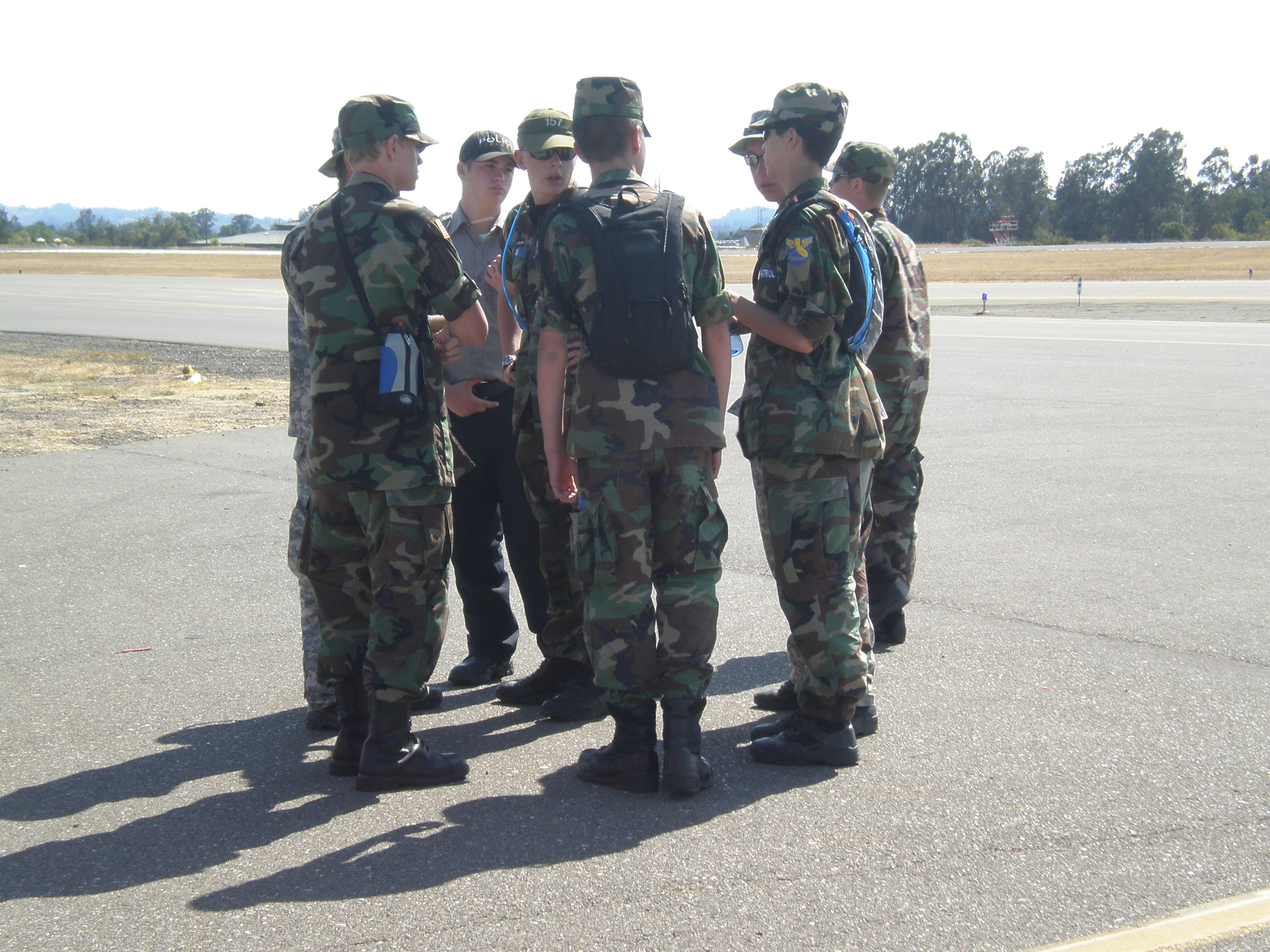 Members of the Civil Air Patrol at the Wings over Wine Country 2008 air show at the Charles M. Schulz - Sonoma County Airport in Sonoma County, California.